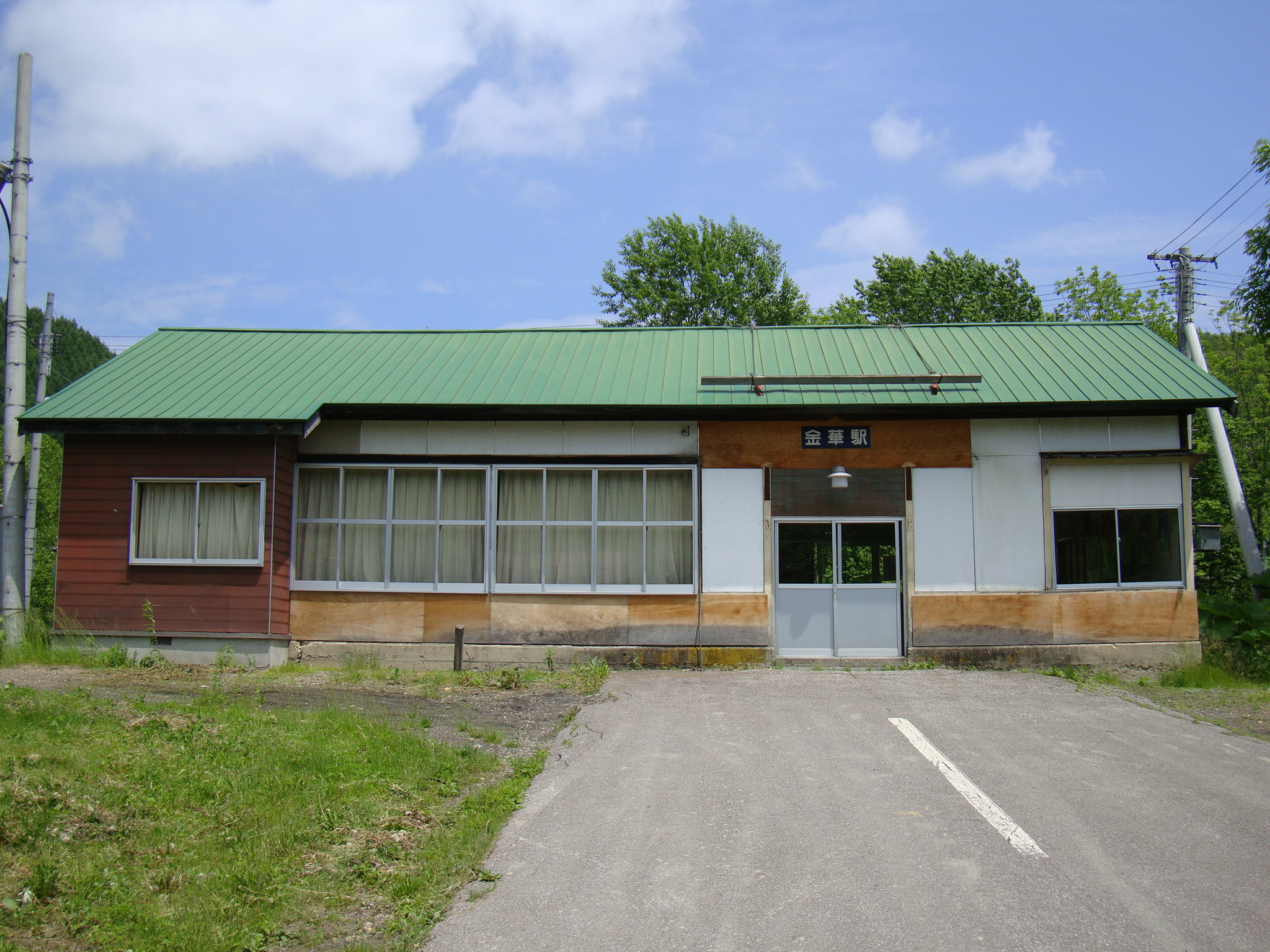 Kanehana Station